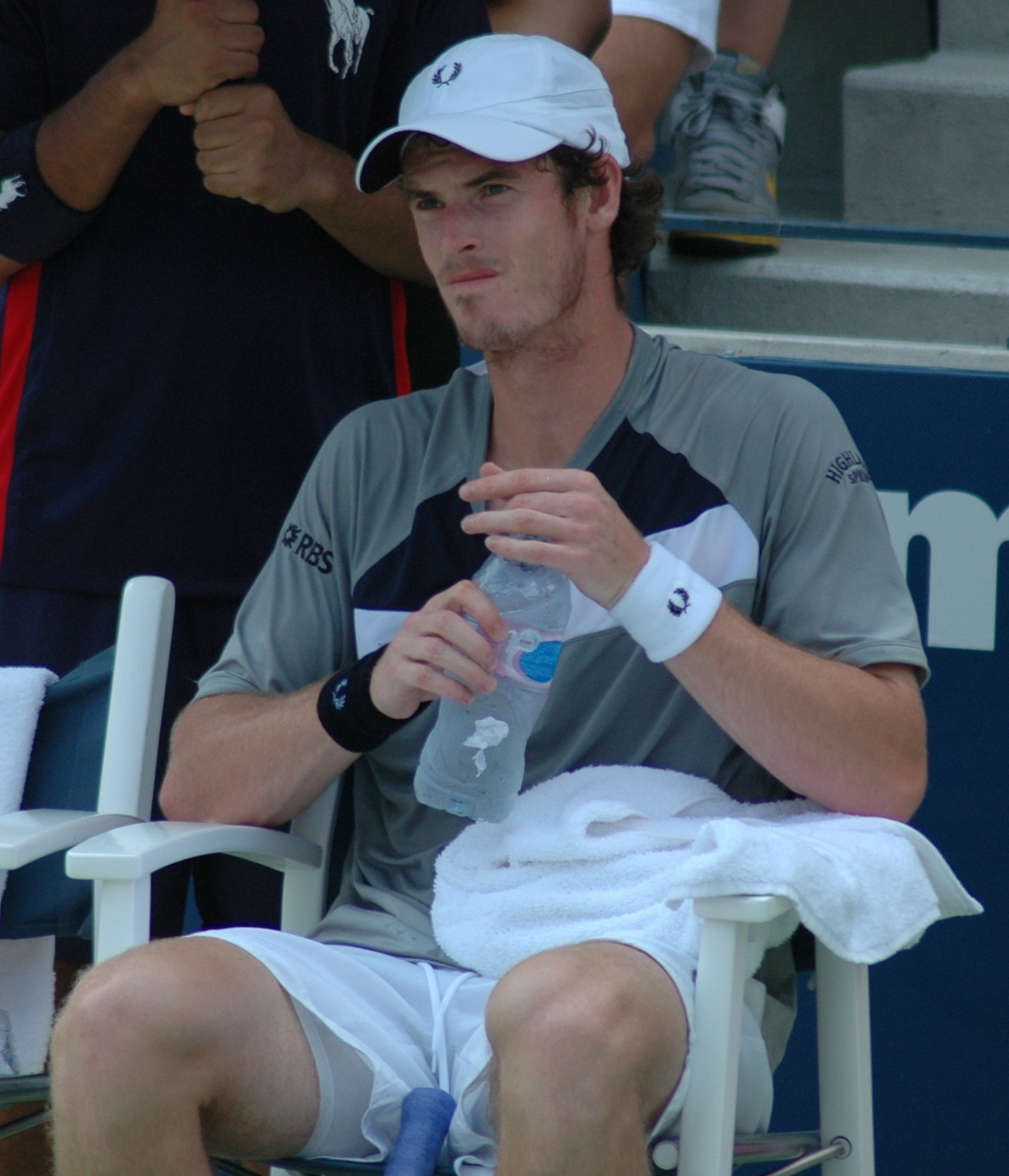 Andy Murray at the 2008 US Open